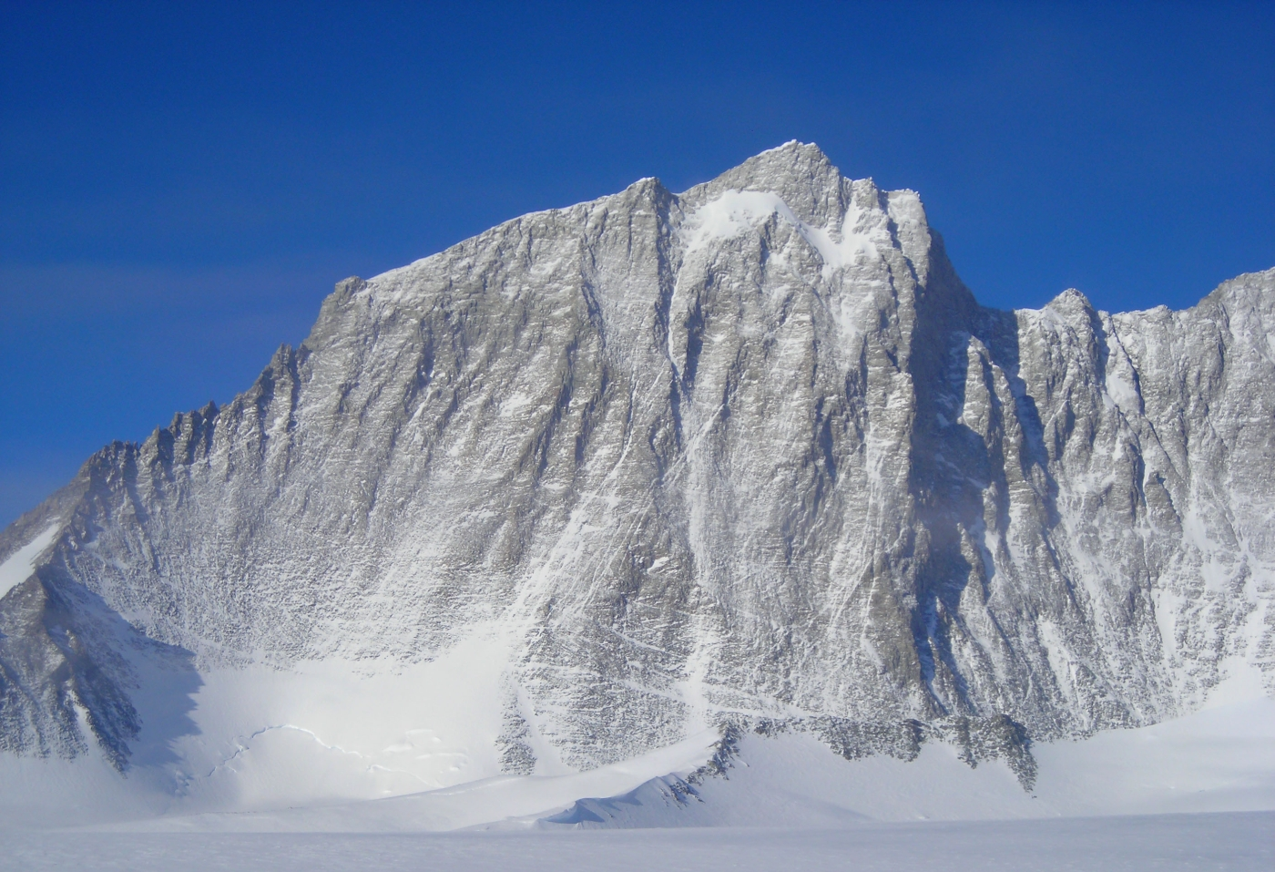 Mount Gardner (Antarctica) from SW by Christian Stangl (flickr)